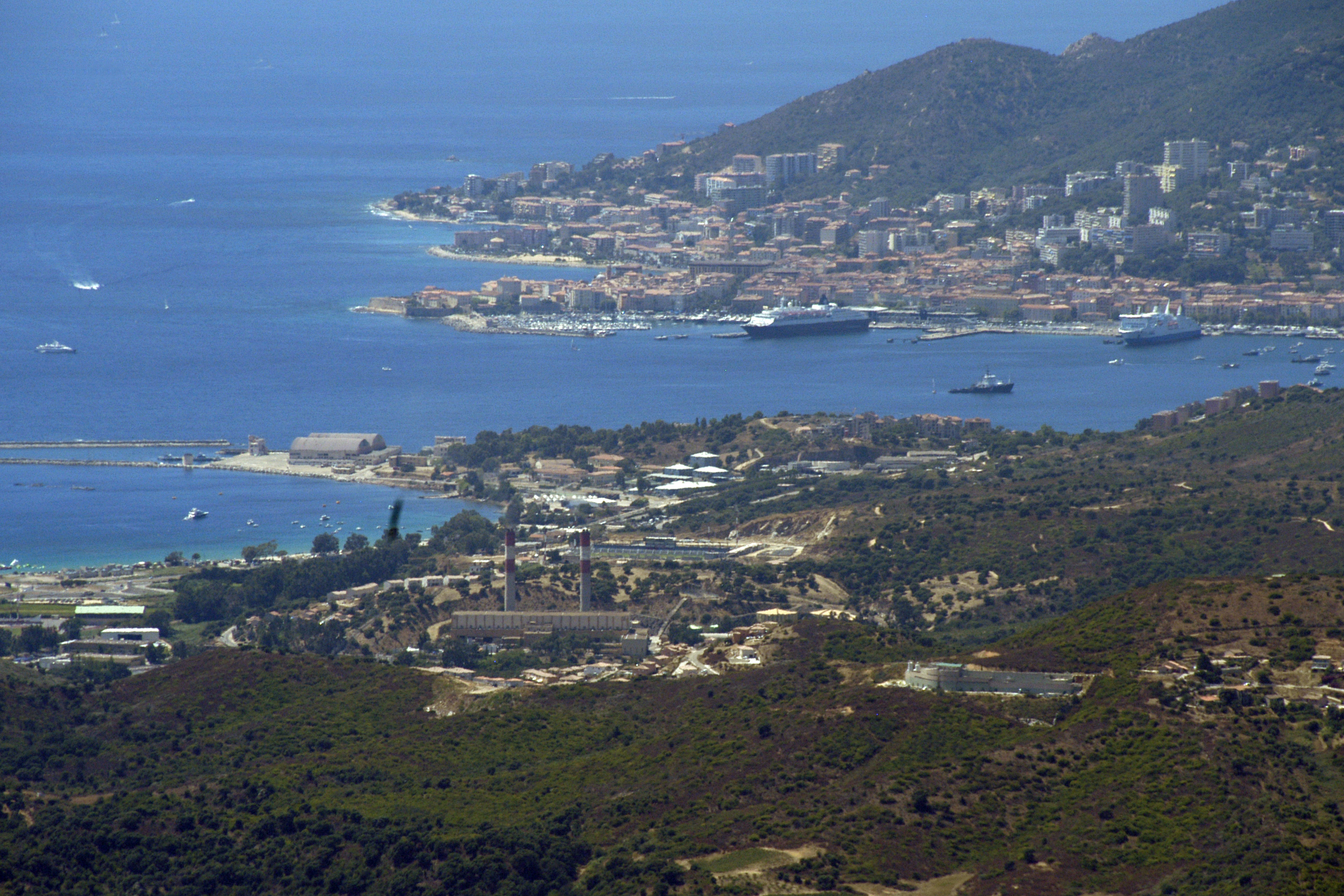 bay of Ajaccio